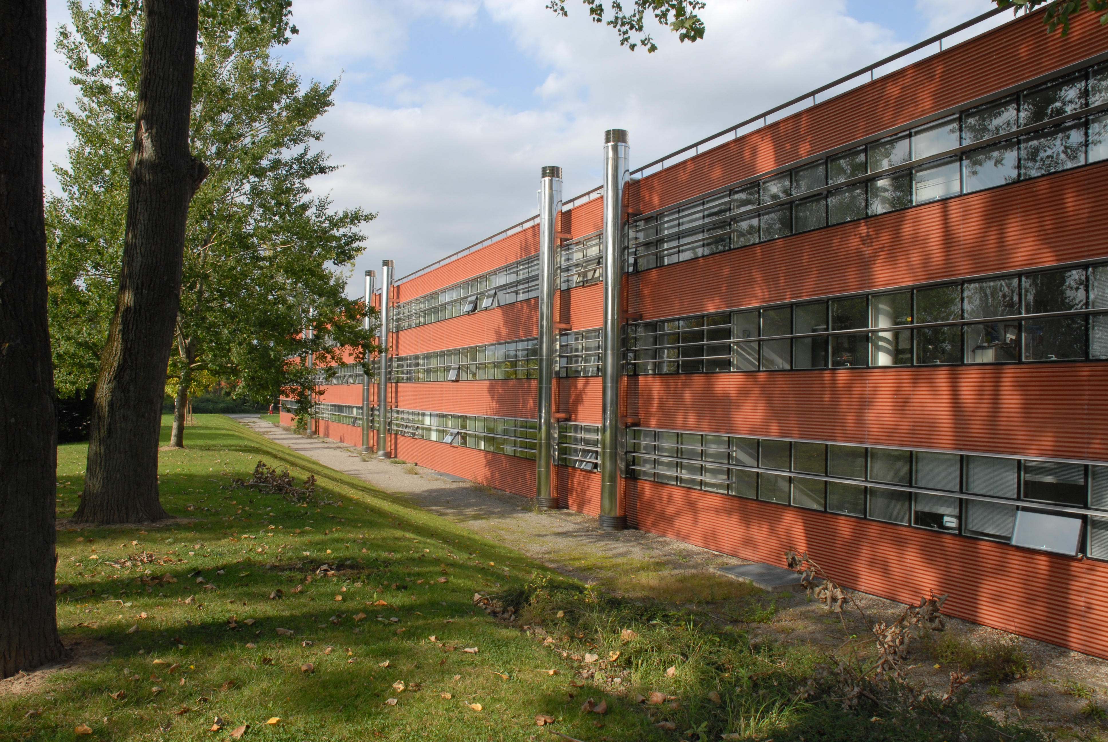 IPCMS main building